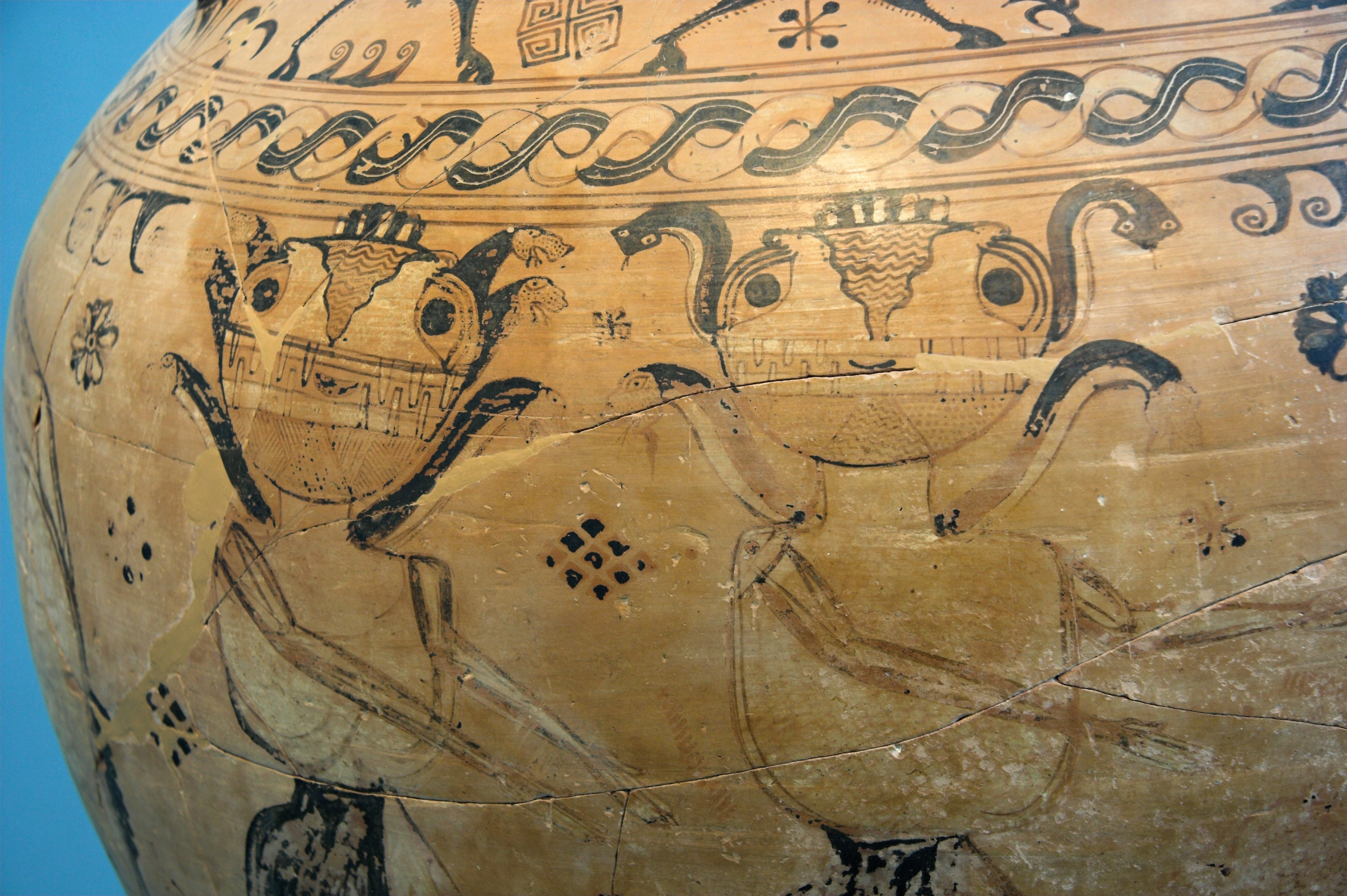 Gorgons. Large Proto-Attic neck amphora, ca 650 BC. Archaeological Museum of Eleusis 2360.